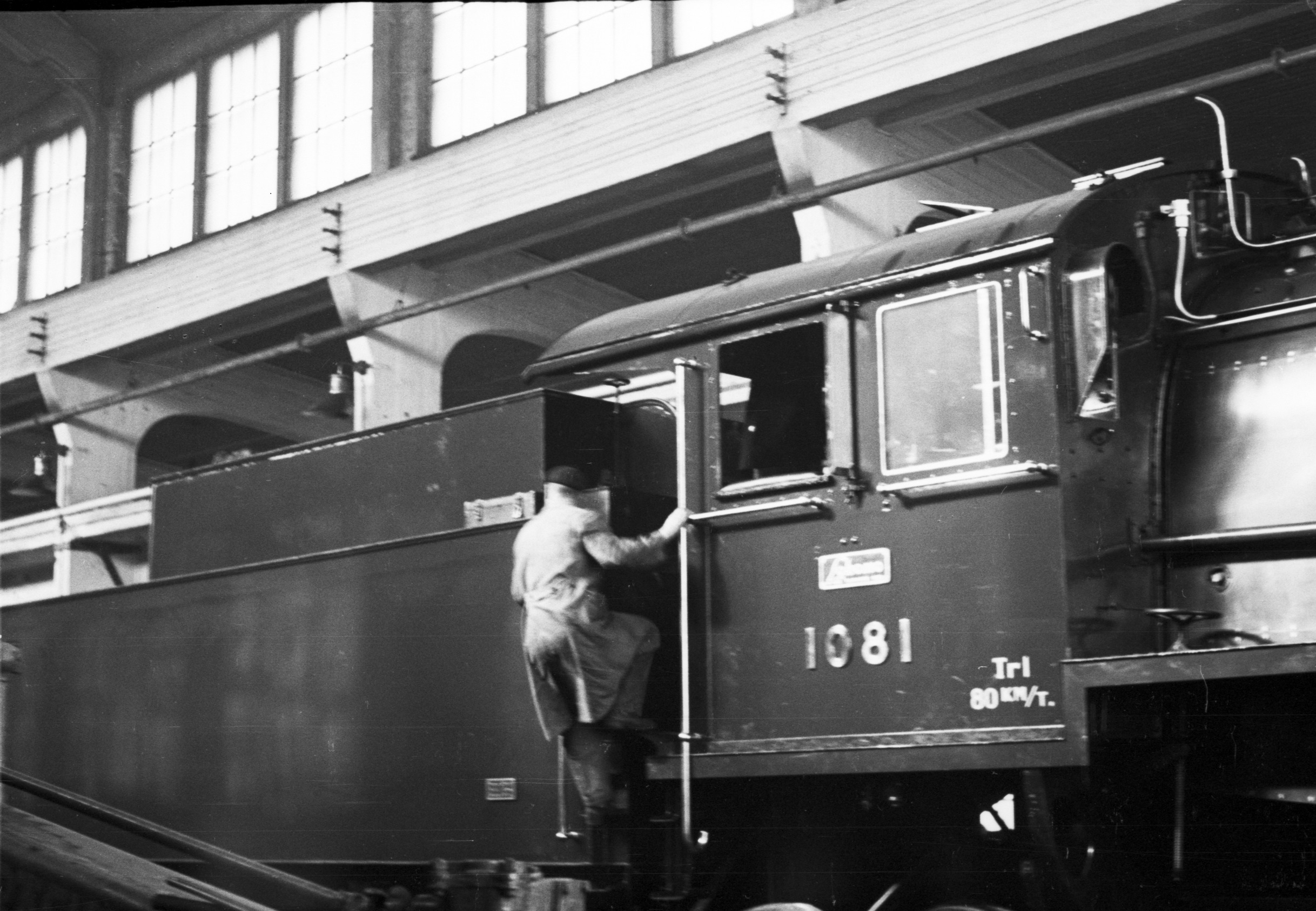 Locomotive Tr1 number 1081 probably in Lokomo factory in Tampere at 1955